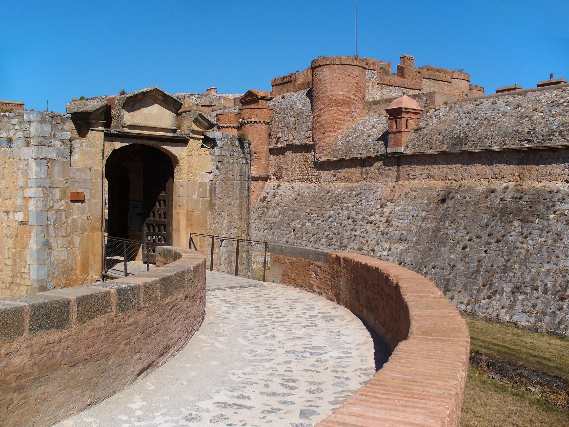 Access to the barbican, Fort de Salses, Salses-le-Château, Pyrénées-Orientales, France